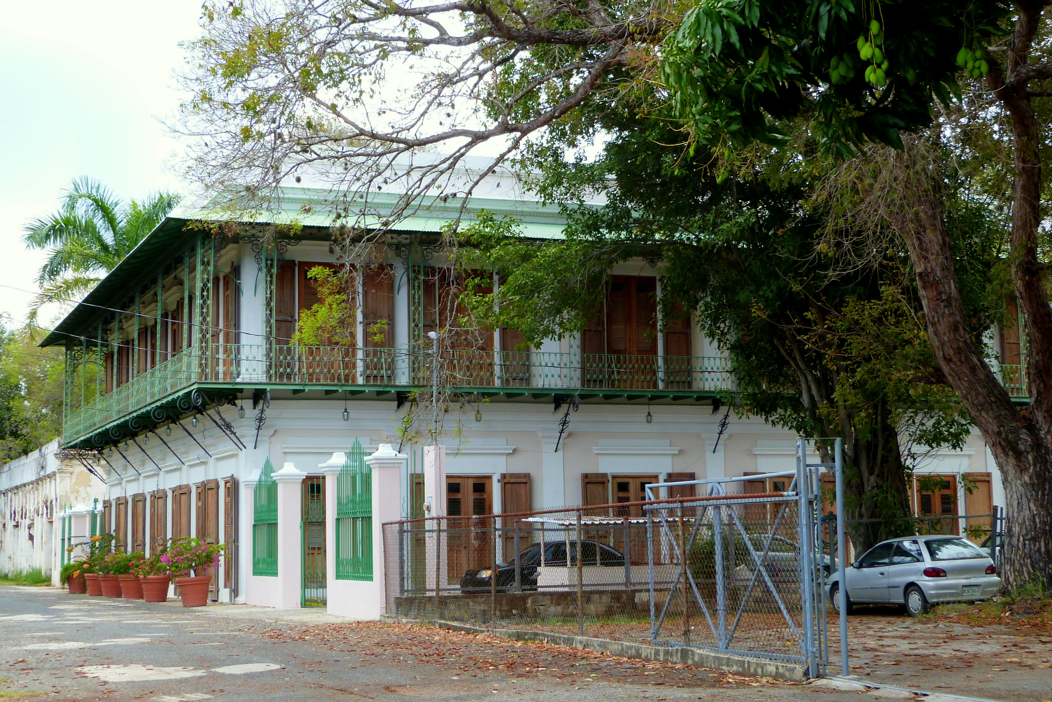 The historic Hacienda Santa Rita (main house shown, built 1800), located on Puerto Rico Highway 116R at km 32.7 in Guánica, Puerto Rico, is listed on the U.S. National Register of Historic Places.